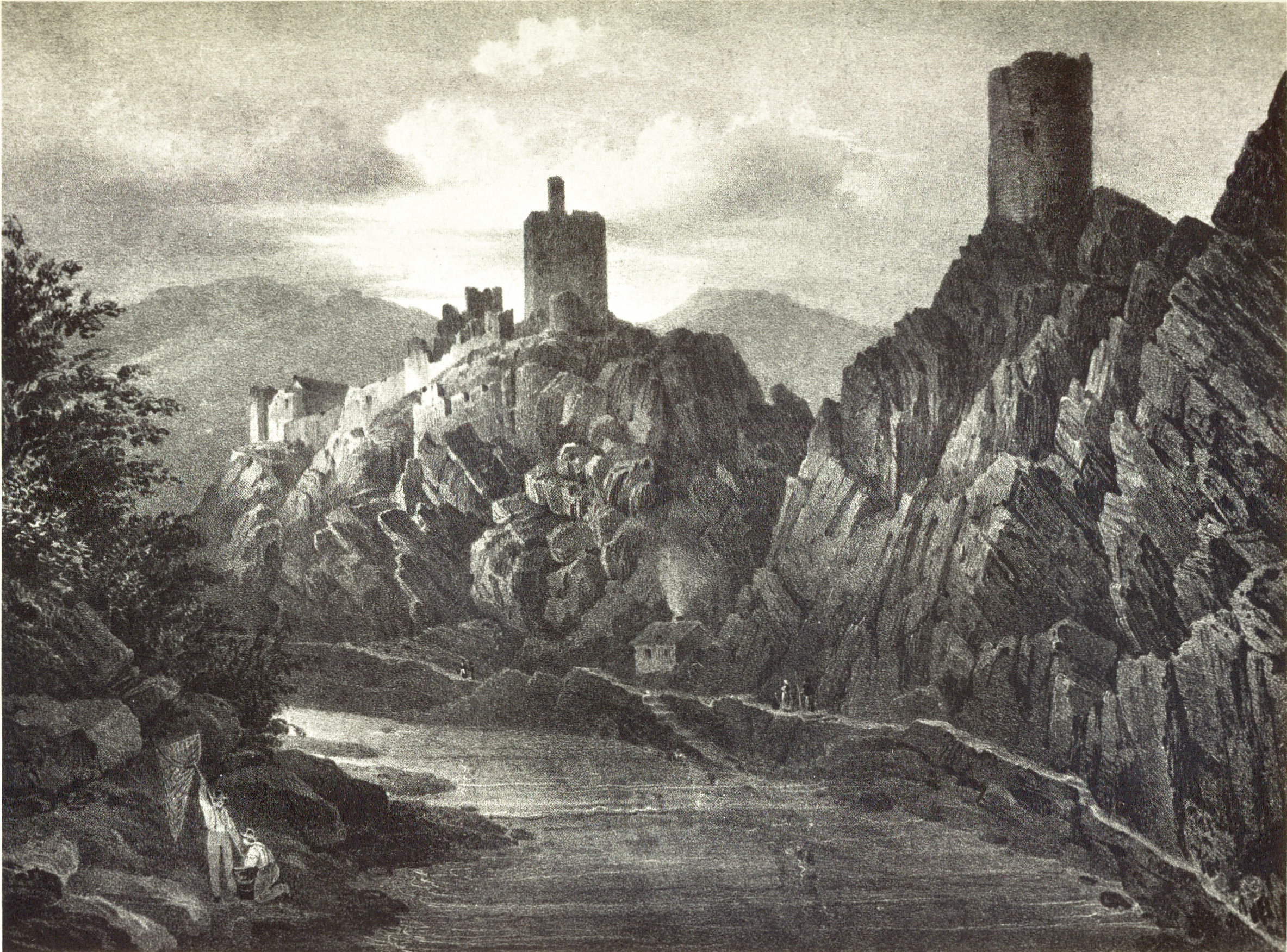 The ruins of the castle of Esch-sur-Sure, Luxembourg. Drawing.